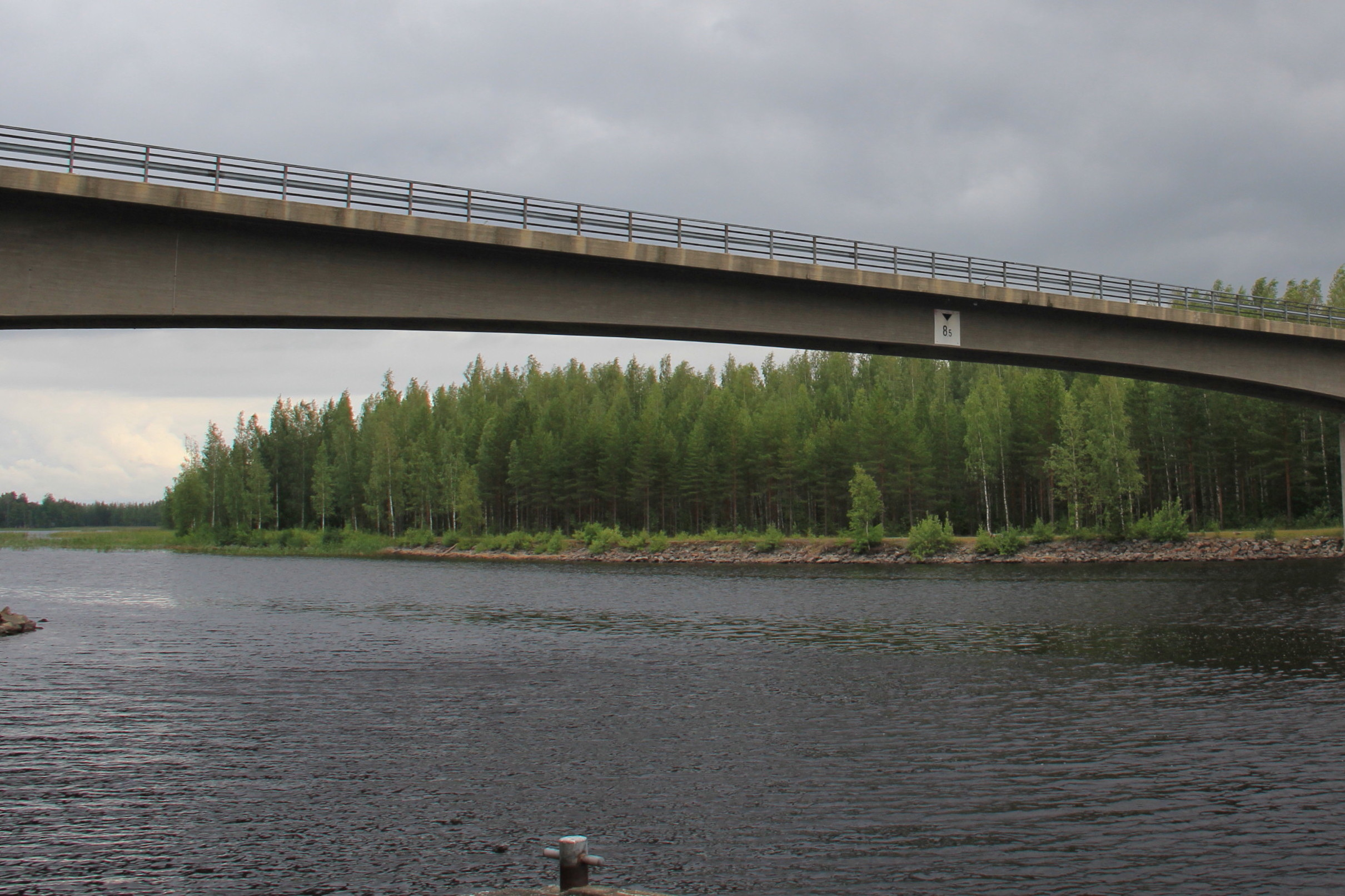 Kivisalmi canal and bridge, Rääkkylä, Finland.